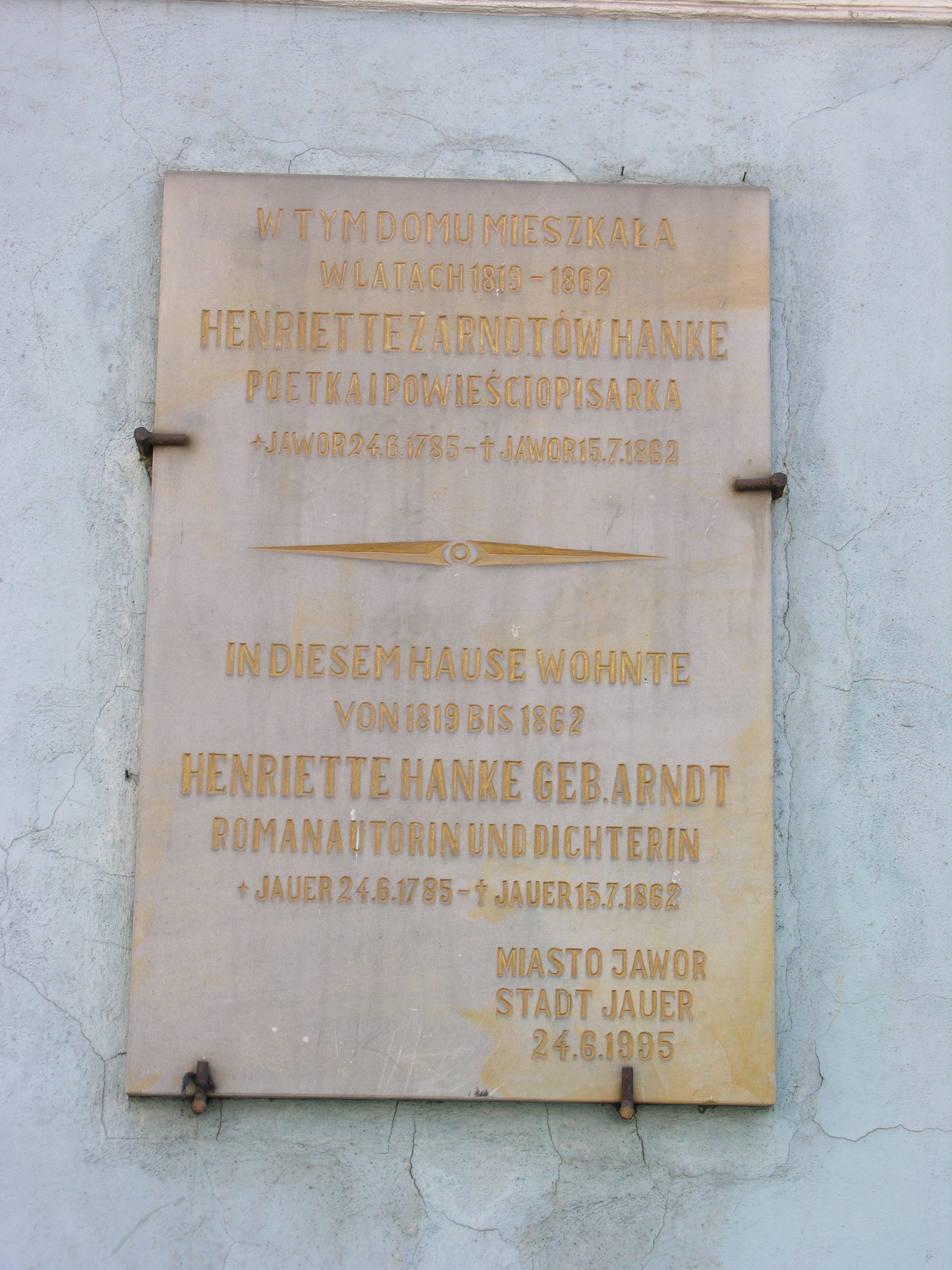 Tablica ku czci pisarki Henriette Hanke w Jaworze